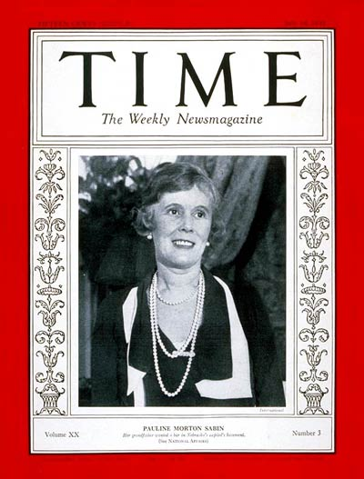 Time magazine cover July 18, 1932.Image of Pauline Sabine, head of the Women's Organization for National Prohibition Reform (WONPR).